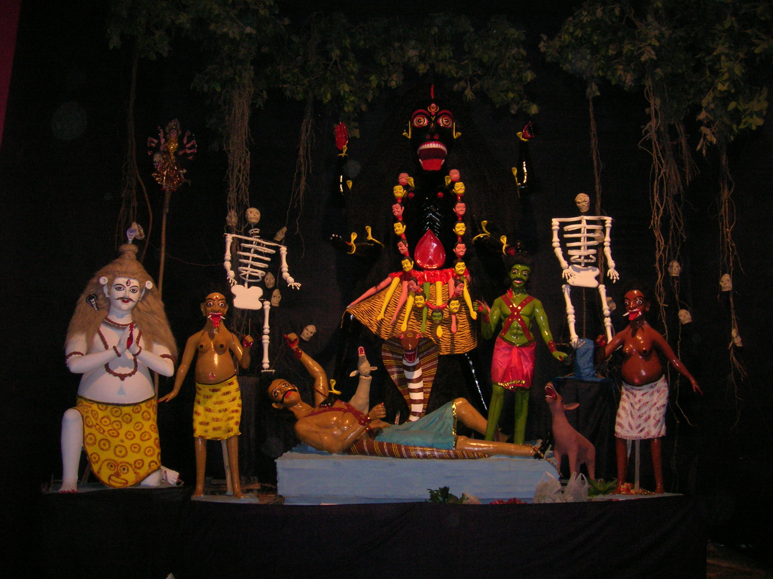 Chamunda at a Alipore Pandal